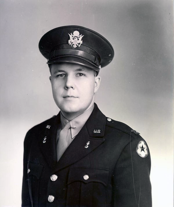 Captain Reginald A. Lenna US Army Ordinance Corps 1941